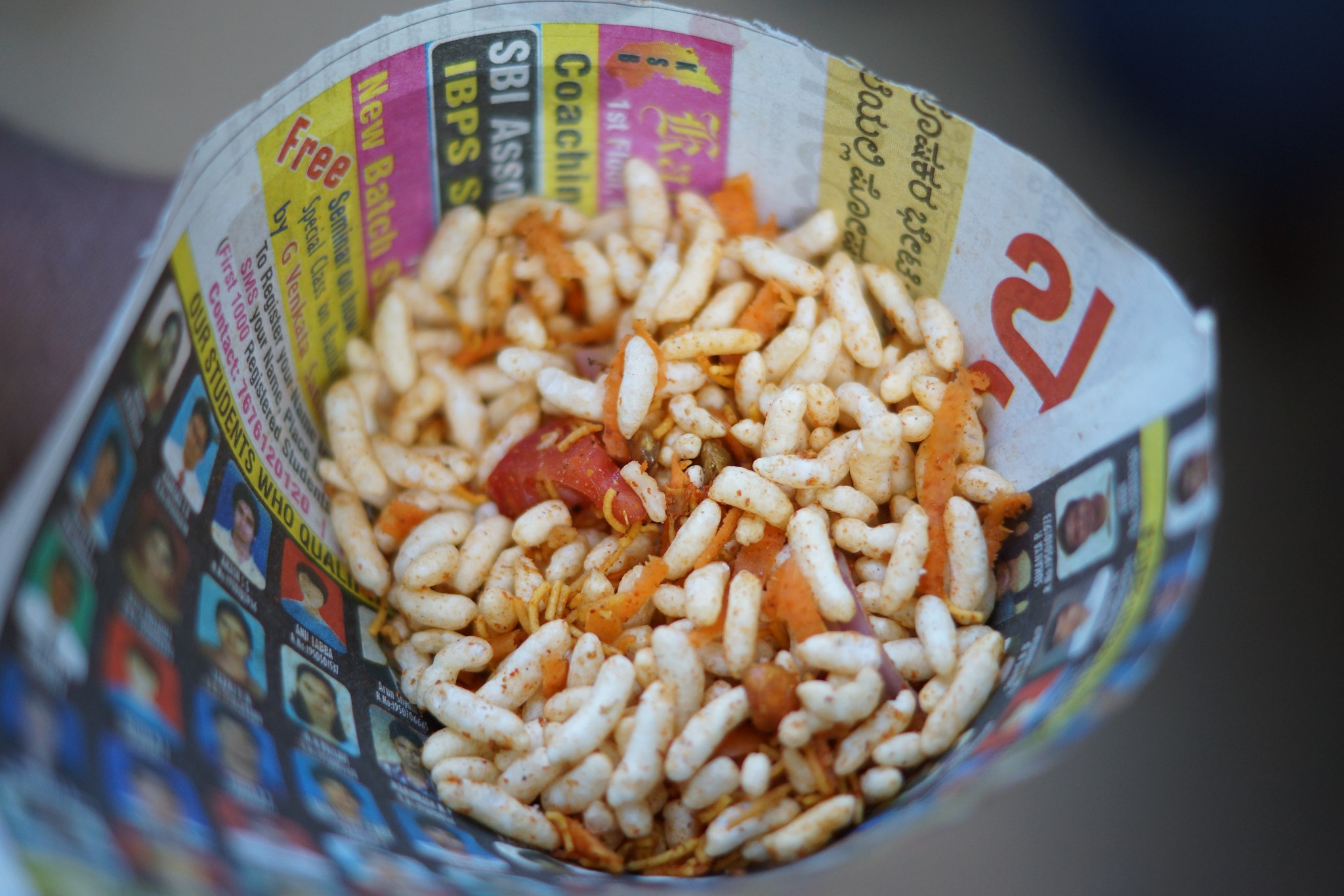 Churumuri at raja seat. Churumuri is available all across Karnataka.